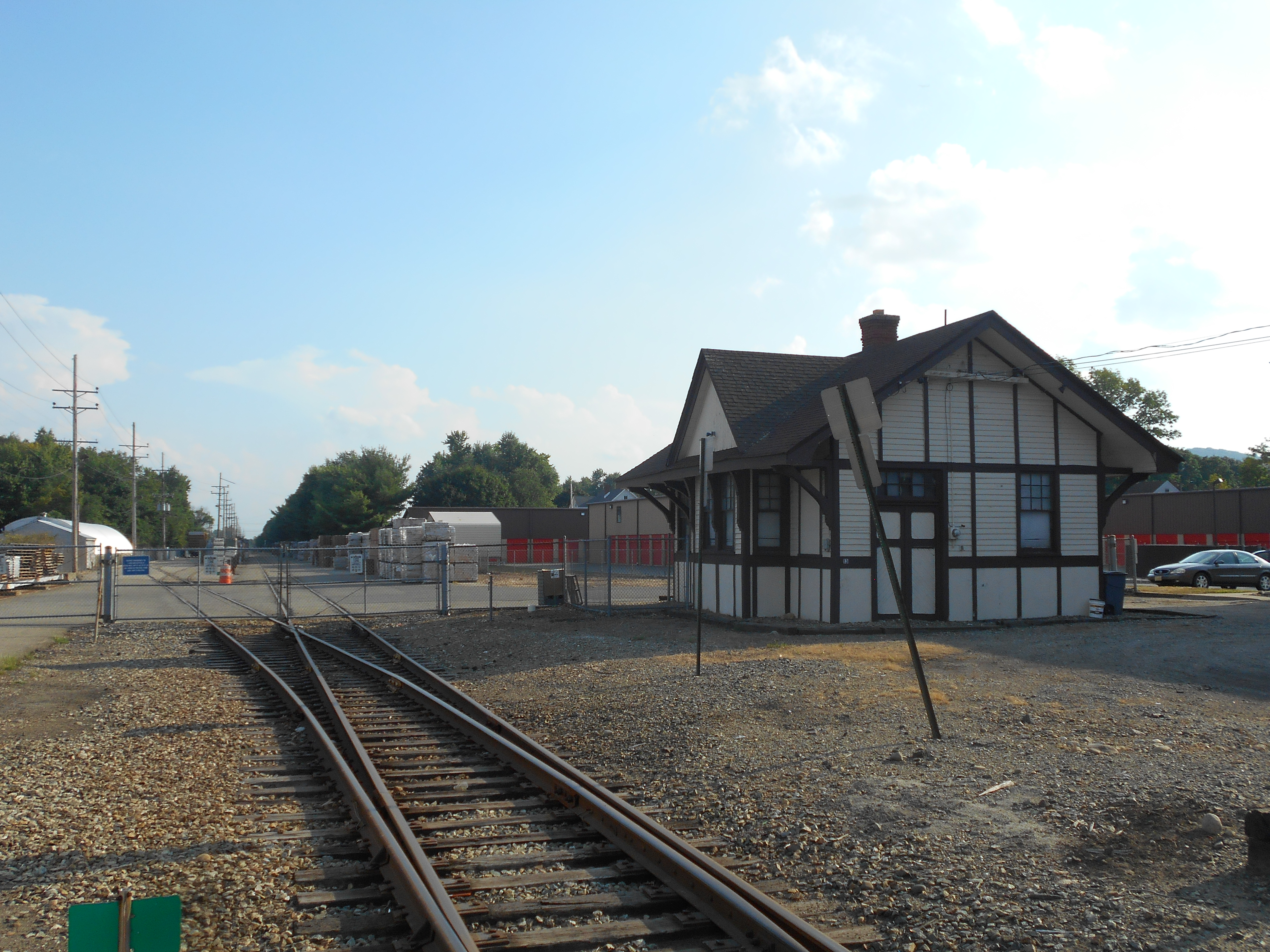 The former Pompton-Riverdale staiton in Riverdale, New Jersey in September 2014.